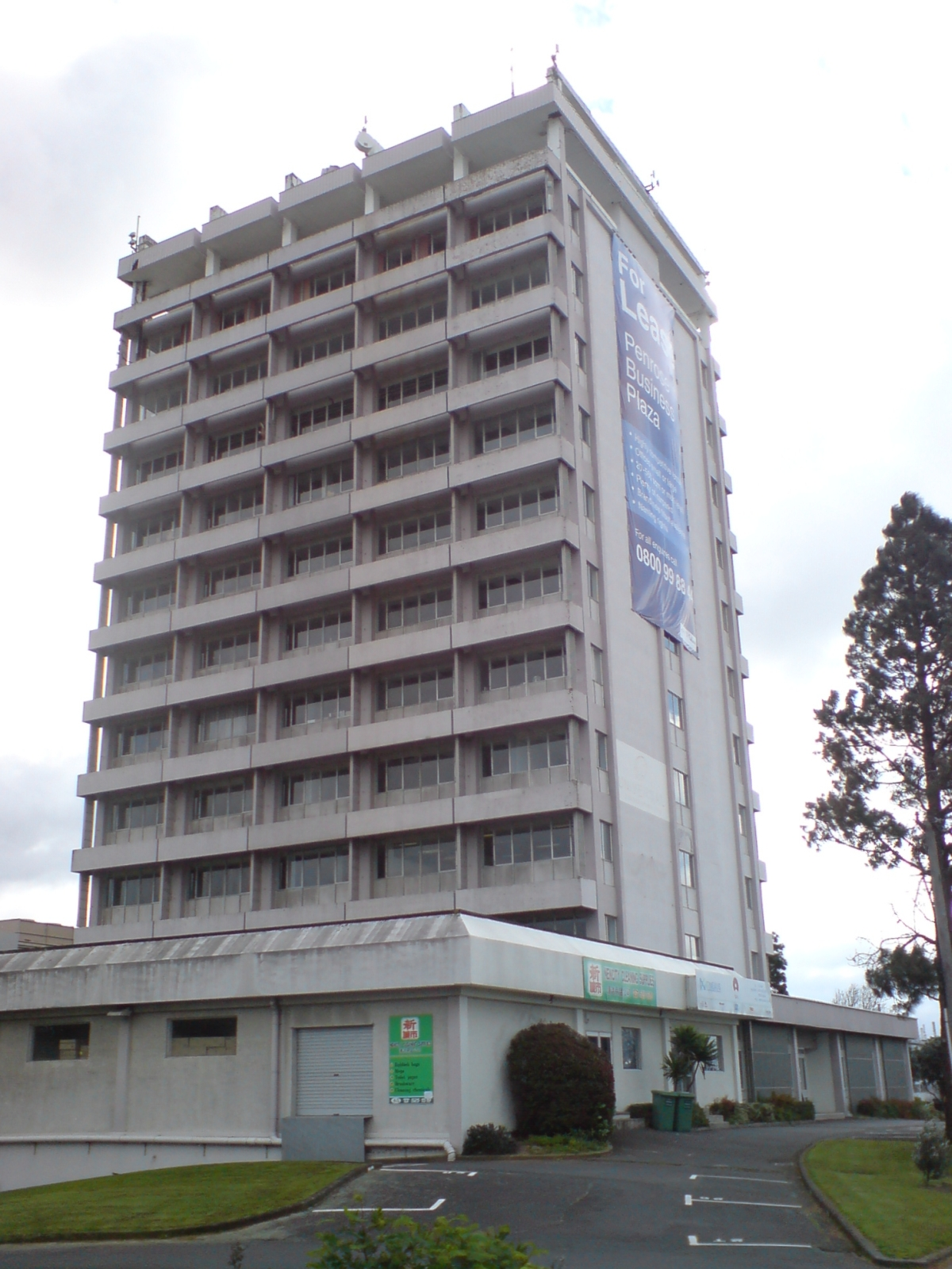 An older office skyscraper in Penrose, Auckland City, New Zealand. The buildings is obviously empty as of 2008, but seems in reasonably good state. I believe it was a 'Continental' building once (tire company)?.